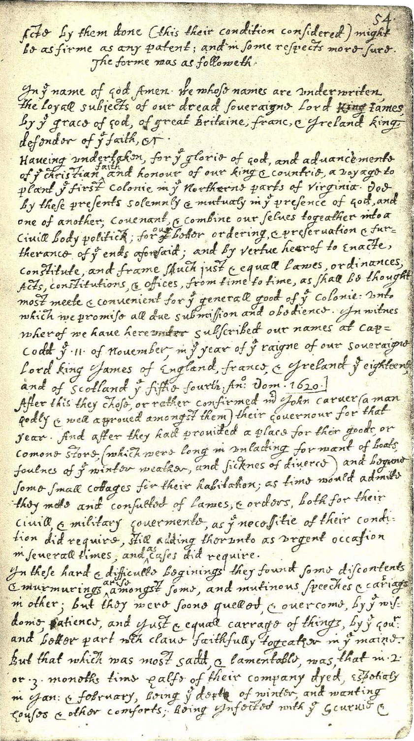 Page from William Bradford's Of Plimoth Plantation containing the text of the Mayflower Compact